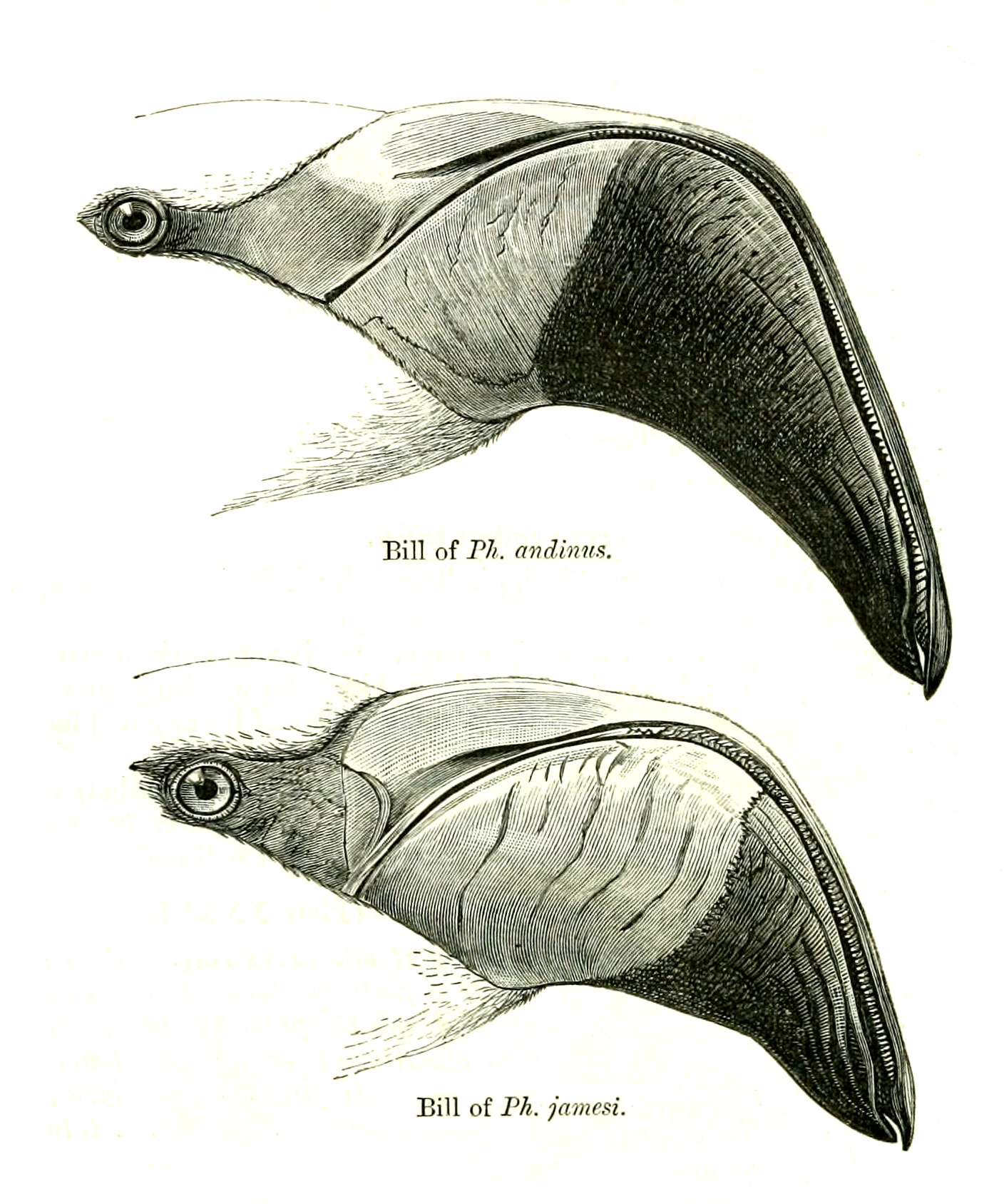 Bill of Andean Flamingo (Phoenicoparrus andinus; top) and James Flamingo (Phoenicoparrus jamesi, bottom)